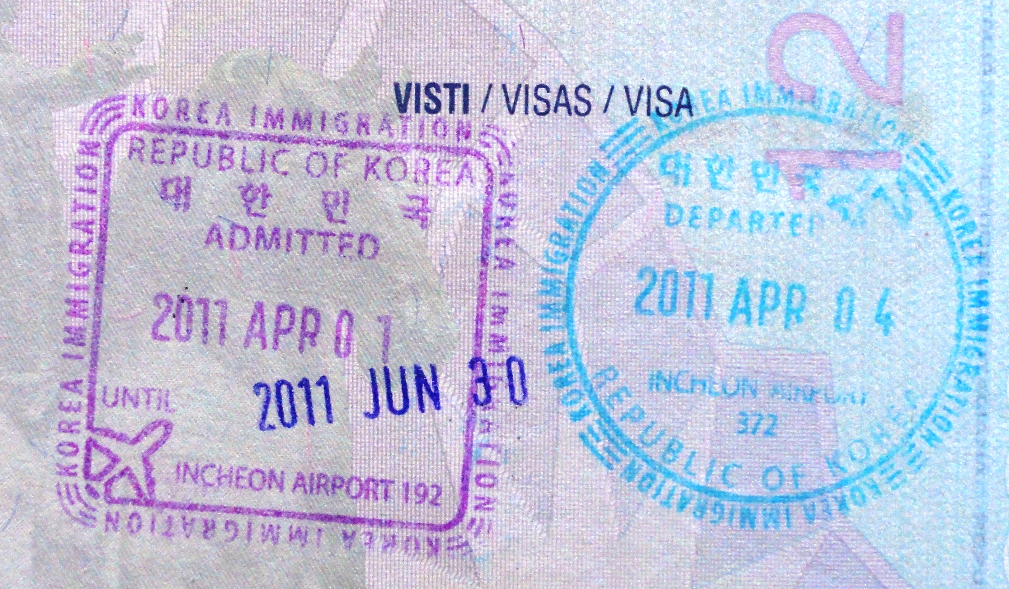 South Korea Visa Stamp